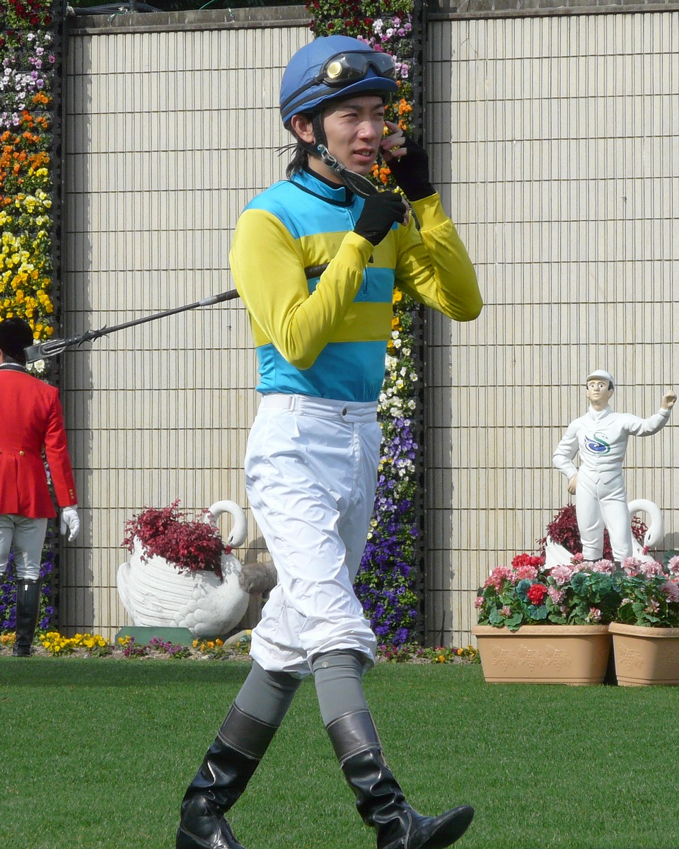 Hidenori-Take